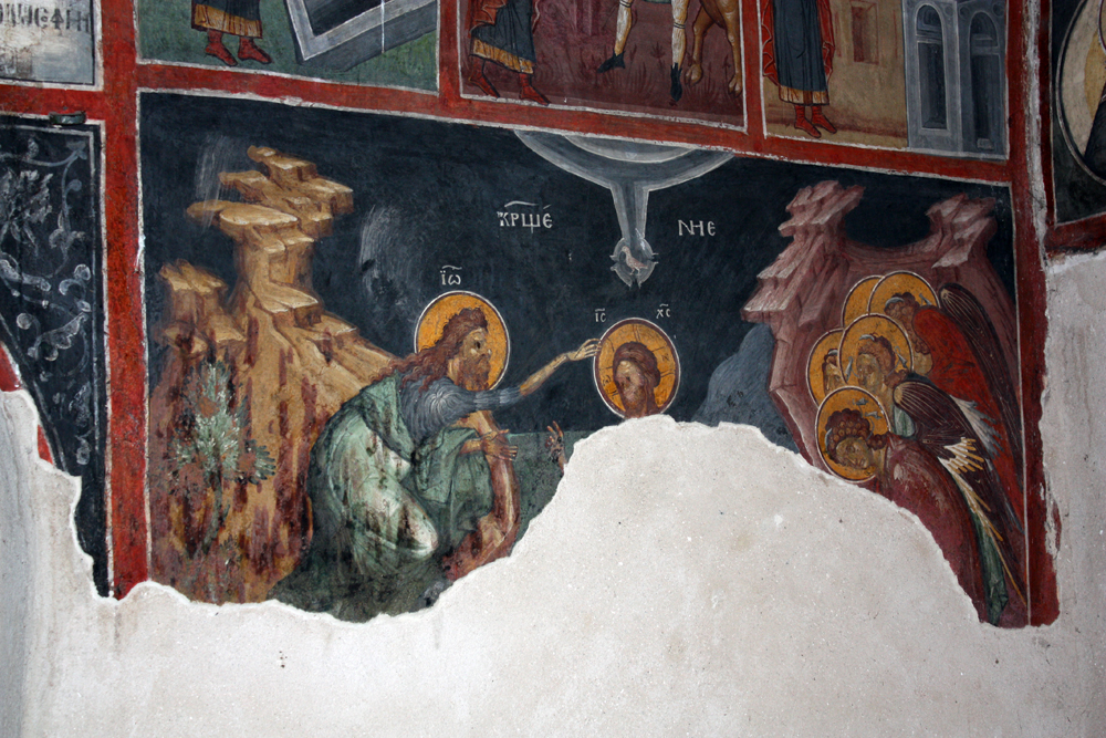 16th century fresco Baptism of Christ from Kremikovtsi Monastery